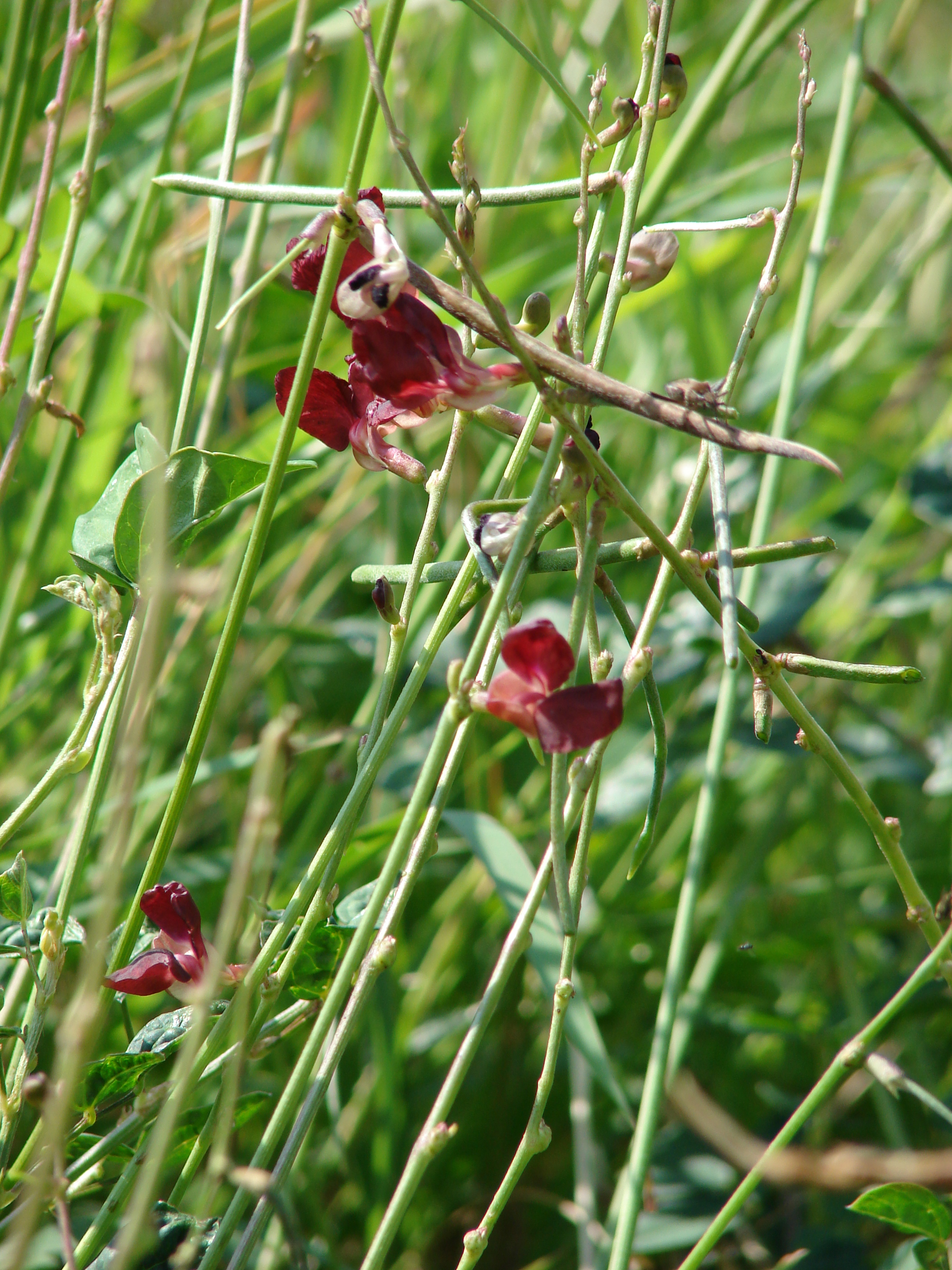 Macroptilium atropurpureum (flowers and pods). Location: Maui, Olowalu